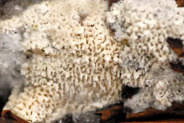 Trechispora mollusca from Commanster, Belgian High Ardennes .